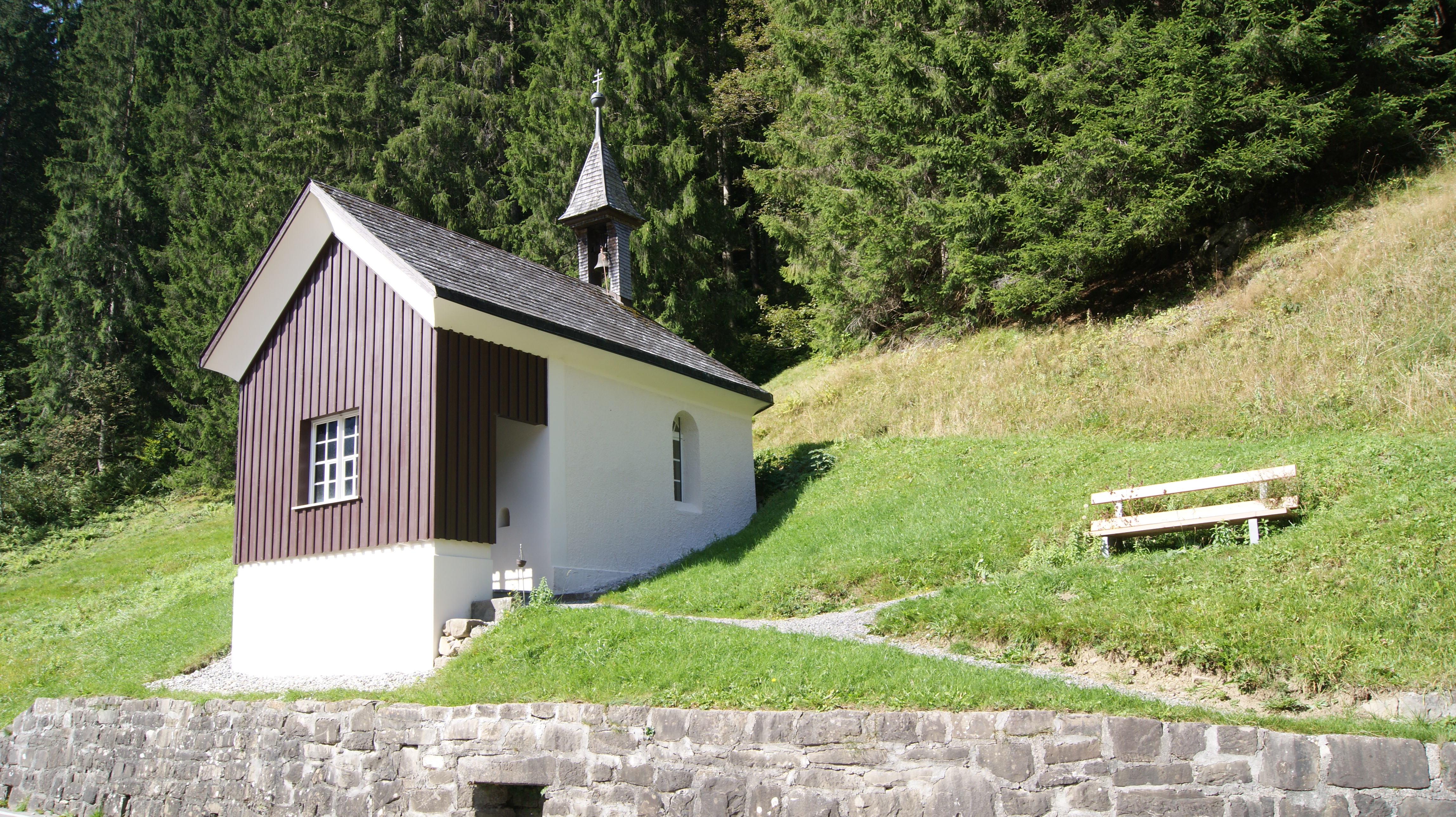 Spa Innerlaterns (also: Spa Laterns, posterior Laternser-spa, posteriorspa, internal Laternserspa) in the Valley Laterns. Former spa and Hotel in Laterns, Vorarlberg, Austria. Chapel.